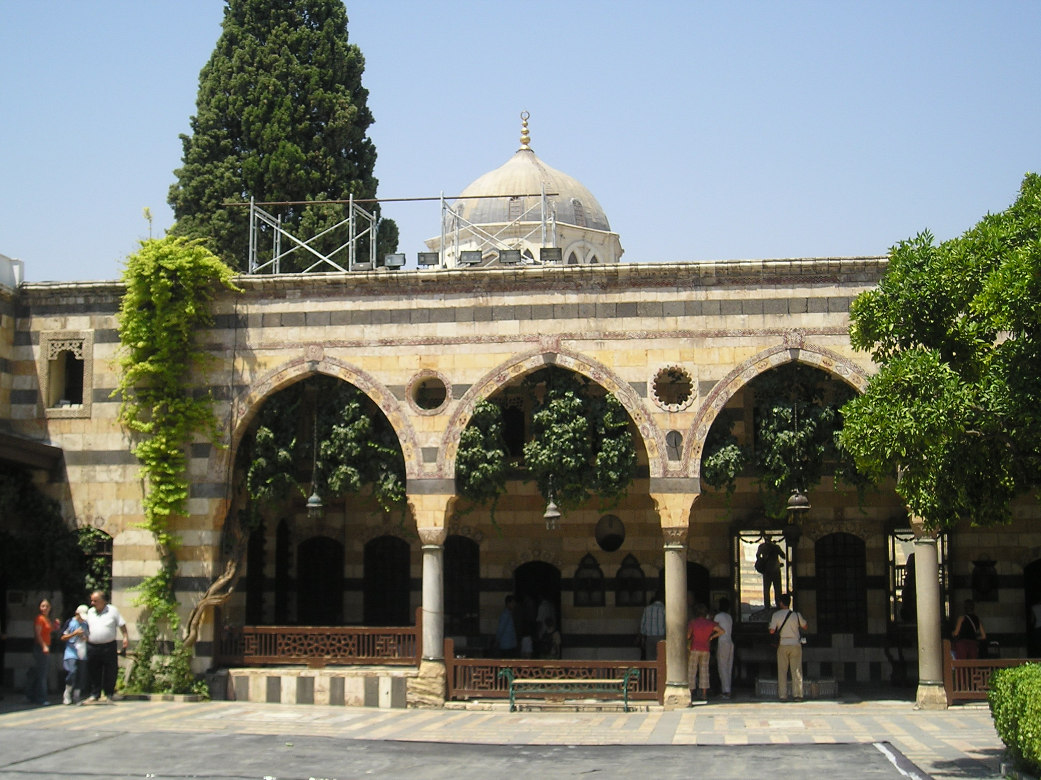 Azem Palace, northern façade of the larger courtyard and garden. In Damascus, Syria. sl: Damask, Sirija - severno pročelje večjega dvorišča Azemove palače I took the photo myself